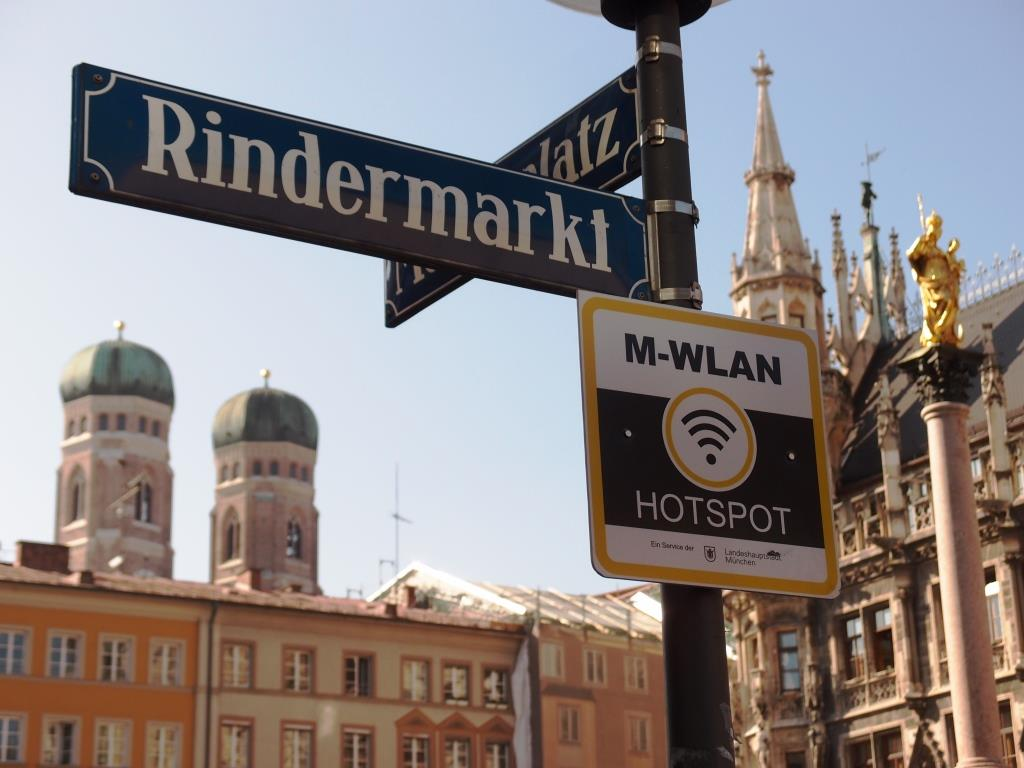 Wi-Fi sign in downtown Munich, Bavaria, Germany; background: Frauenkirche, City Hall